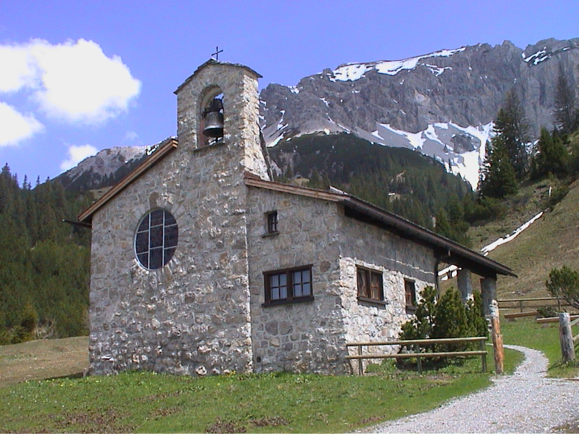 This is the "Peace Chapel" in Malbun in the Liechtenstein mountains